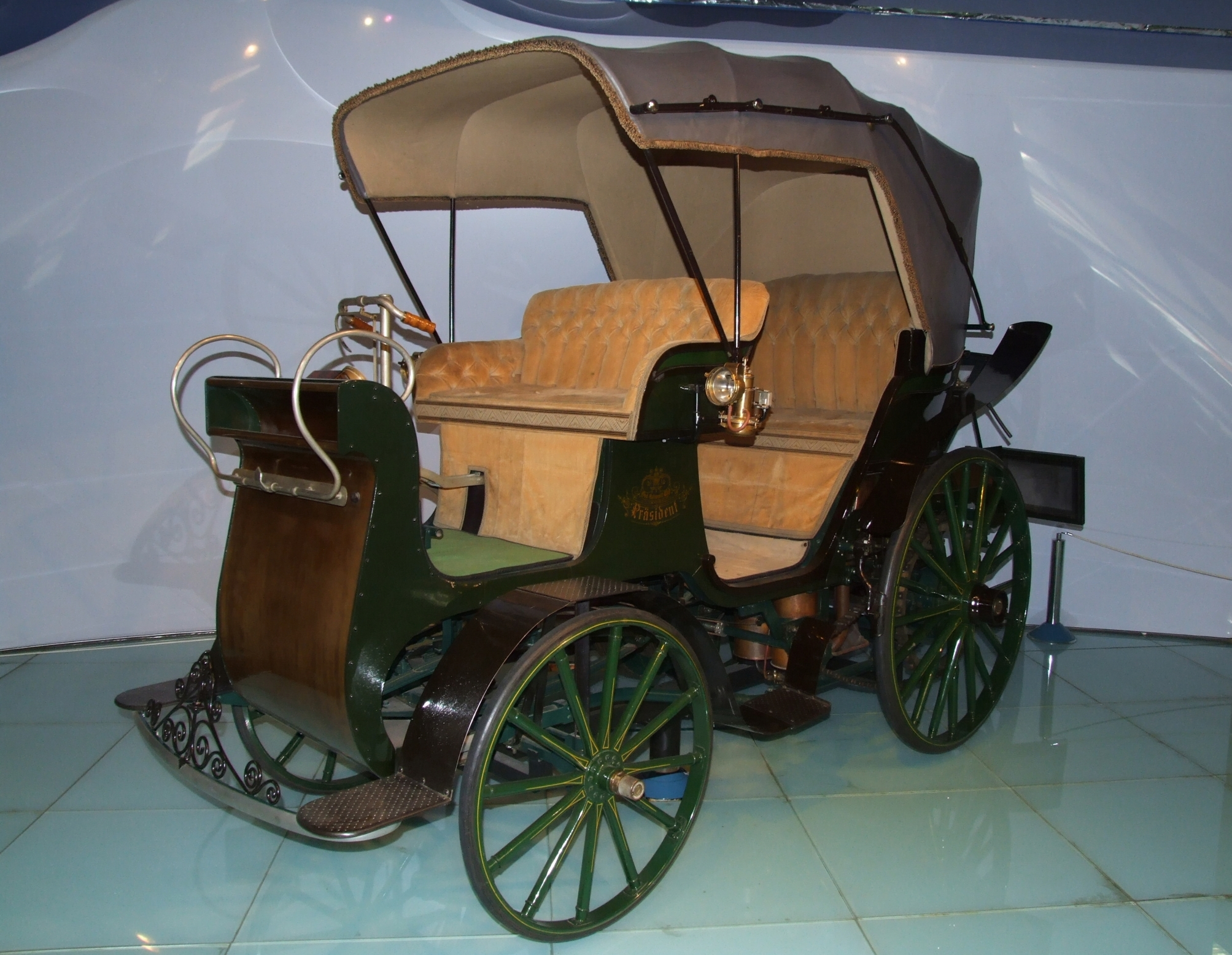 NW Präsident - first factory-produced automobil made in the Austria-Hungary. Copy from Tatra Museum Kopřivnice